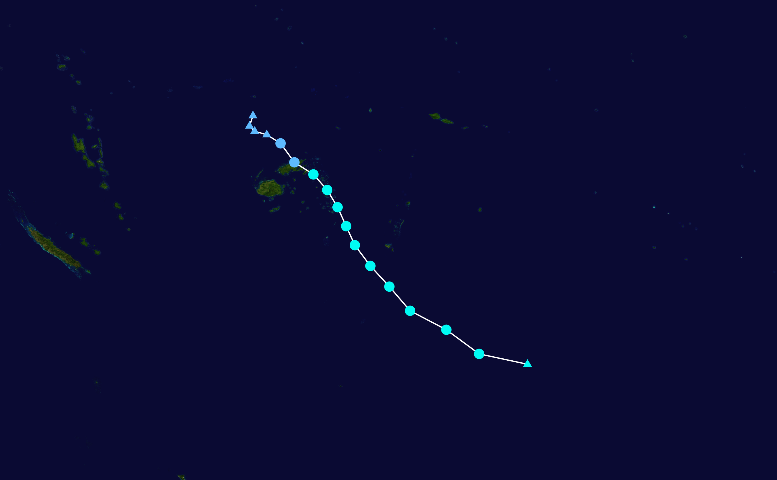 Track map of Tropical Cyclone Cliff of the 2006-07 South Pacific cyclone season. The points show the location of the storm at 6-hour intervals. The colour represents the storm's maximum sustained wind speeds as classified in the Saffir–Simpson scale (see below), and the shape of the data points represent the nature of the storm, according to the legend below. Saffir–Simpson scale Tropical depression≤38 mph≤62 km/h Category 3111–129 mph178–208 km/h Tropical storm39–73 mph63–118 km/h Category 4130–156 mph209–251 km/h Category 174–95 mph119–153 km/h Category 5≥157 mph≥252 km/h Category 296–110 mph154–177 km/h Unknown Storm type Tropical cyclone Subtropical cyclone Extratropical cyclone / Remnant low / Tropical disturbance / Monsoon depression